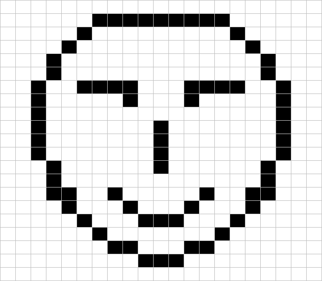 An enlarged bitmap shows a smiling face